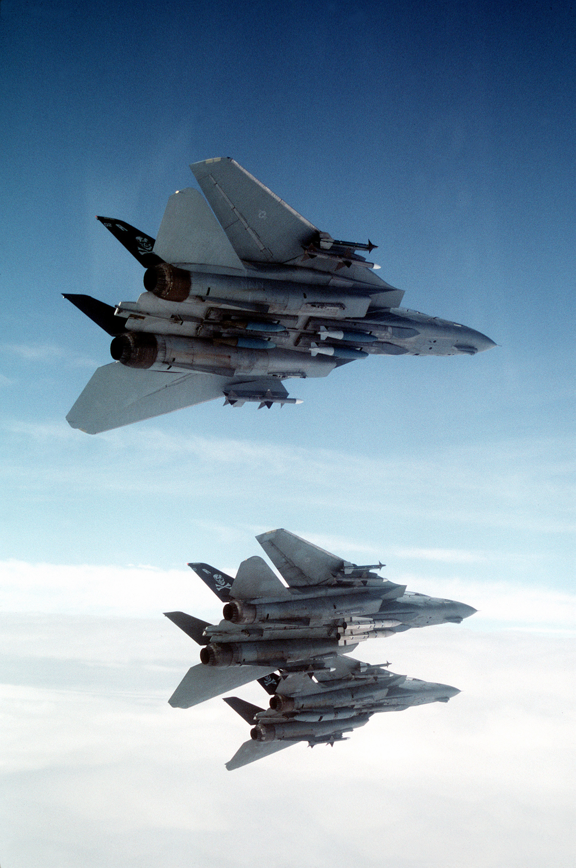 F-14A Tomcat aircraft of Fighter Squadron 84 (VF-84) bank to the left while flying in formation. The Tomcat in the foreground is armed with AIM-9 Sidewinder missiles on its outer pylons, AIM-7 Sparrow missiles on its inner pylons and practice bombs under the fuselage. The F-14A at center is armed with Sidewinders on the outer pylons, Sparrows on the inner pylons, and AIM-54 Phoenix missiles under the fuselage. The F-14A in the background is armed with Sidewinders on the outer pylons, Sparrows on the inner pylons and carries a tactical air reconnaissance pod system (TARPS) under the fuselage.